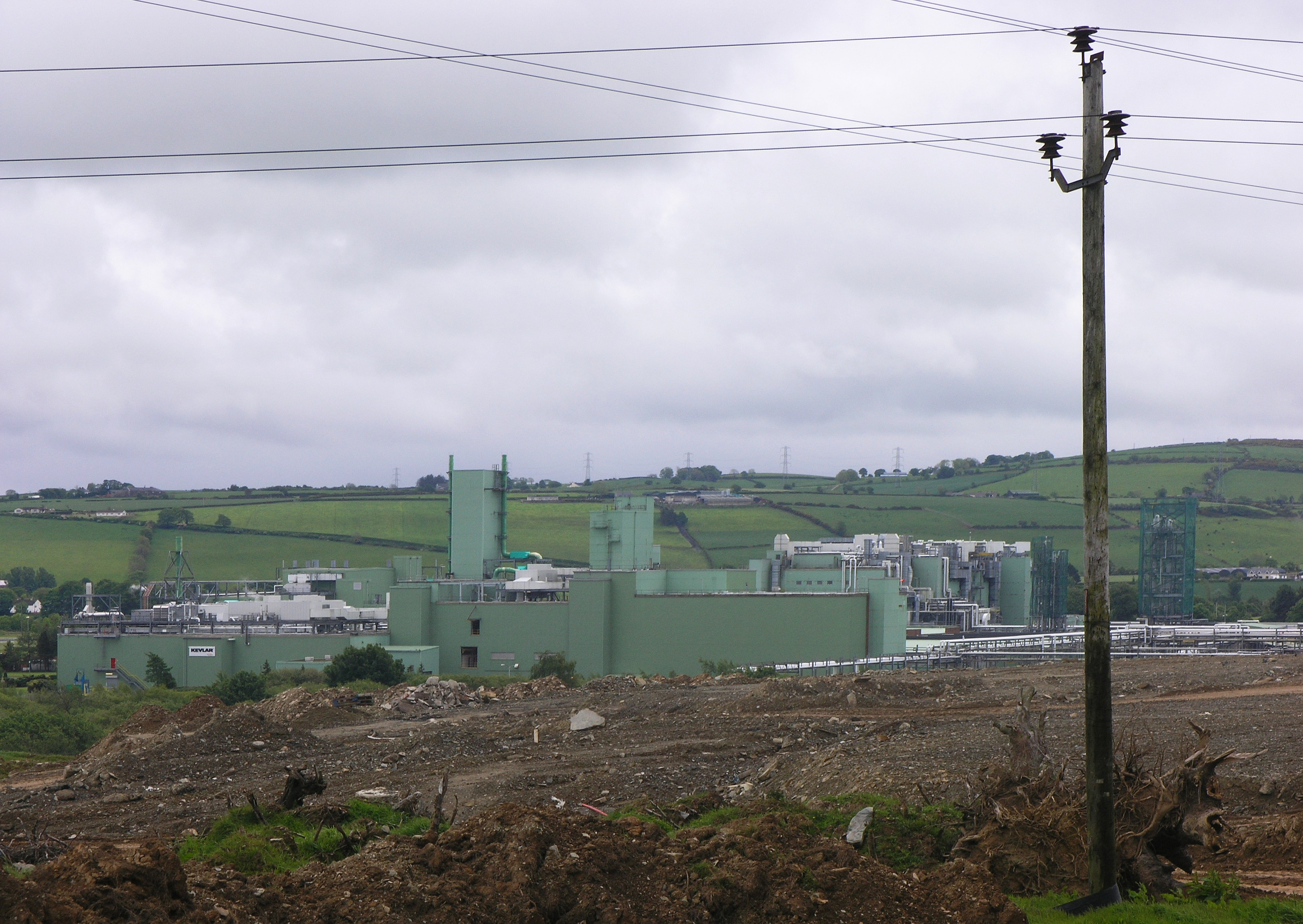 Du Pont plant in Derry 2007. Note that due to security restrictions from Du Pont I was forced to take the picture from some distance away.